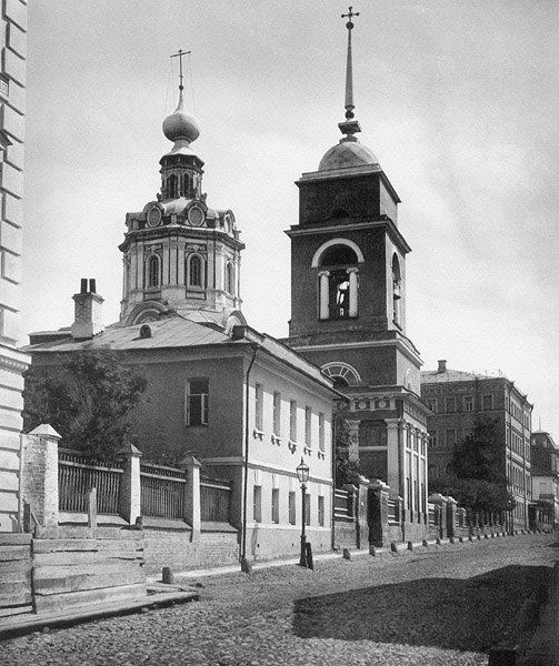 Church of the Entry of the Theotokos, of the former Varsonofievsky Monastery, Moscow.